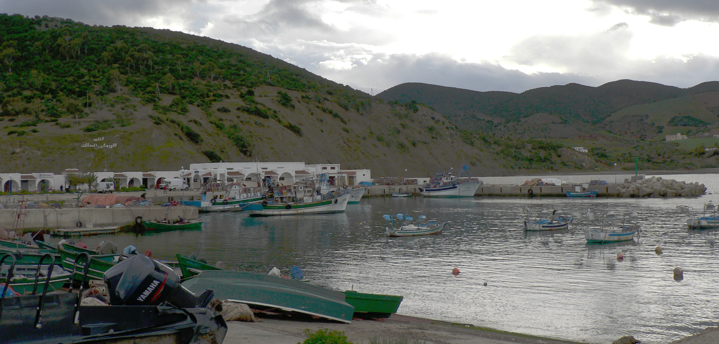 The port of the village Cala Iris in Al-Hoceima Province, Morocco.